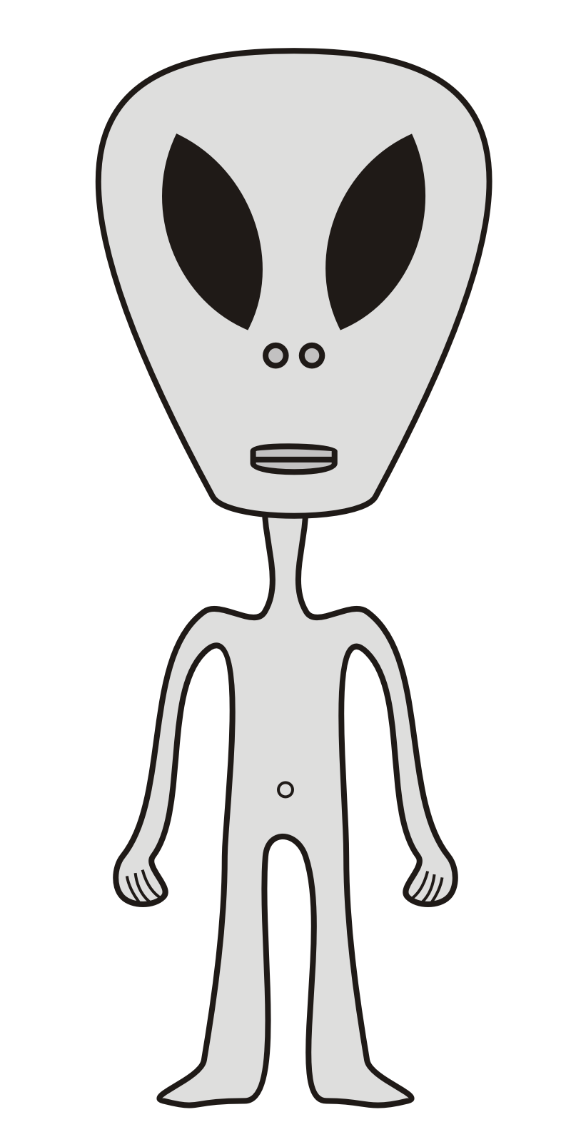 A Gray